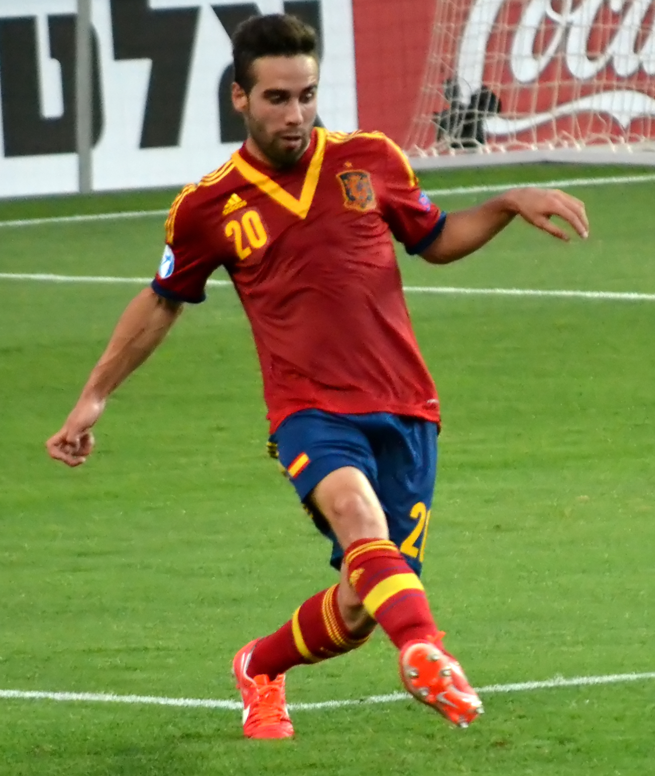 Daniel Carvajal playing for Spain U-21 against Netherlands during UEFA U-21 European Championships in 2013.